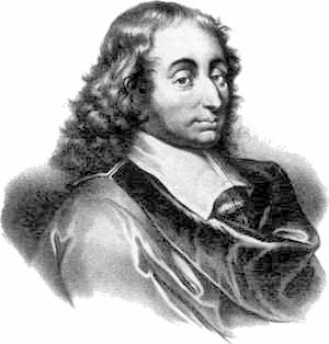 Portrait of Blaise Pascal